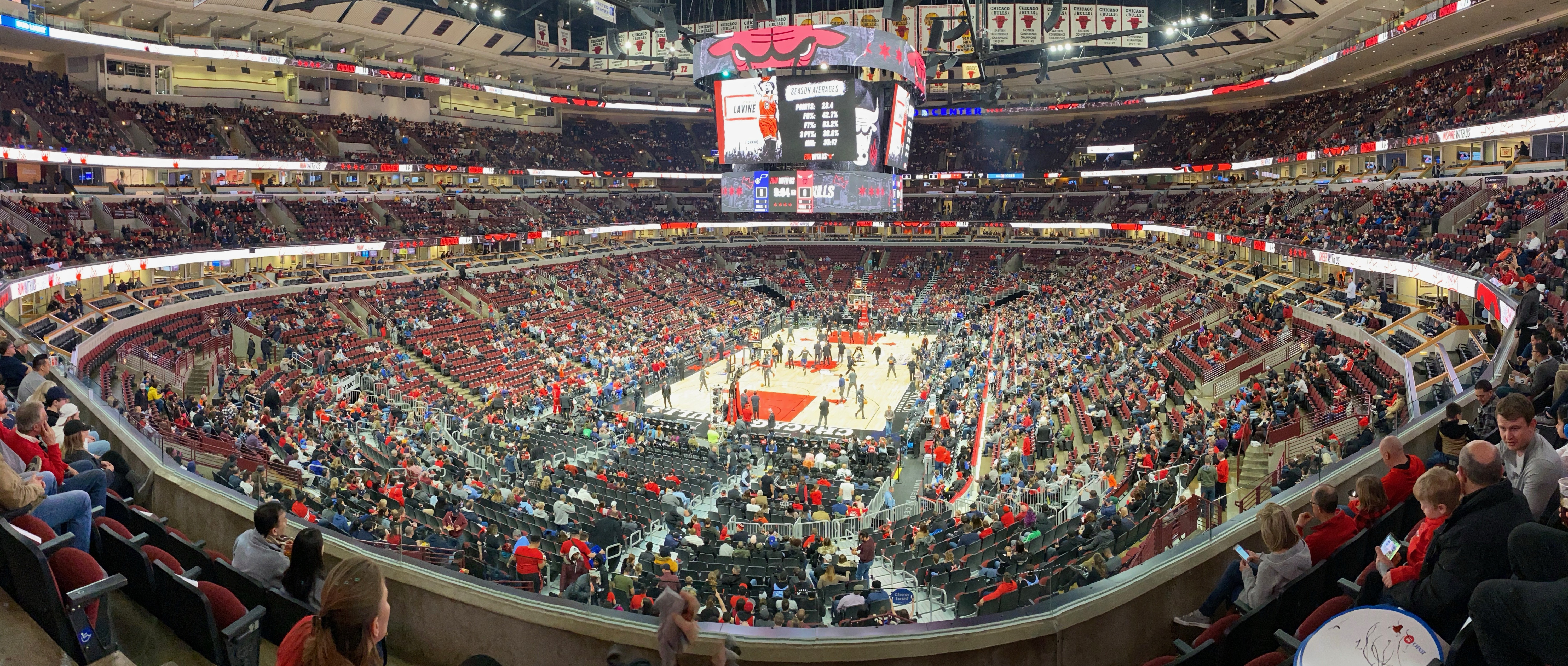 Panorama of the United Center during a Chicago Bulls game on January 2nd, 2020